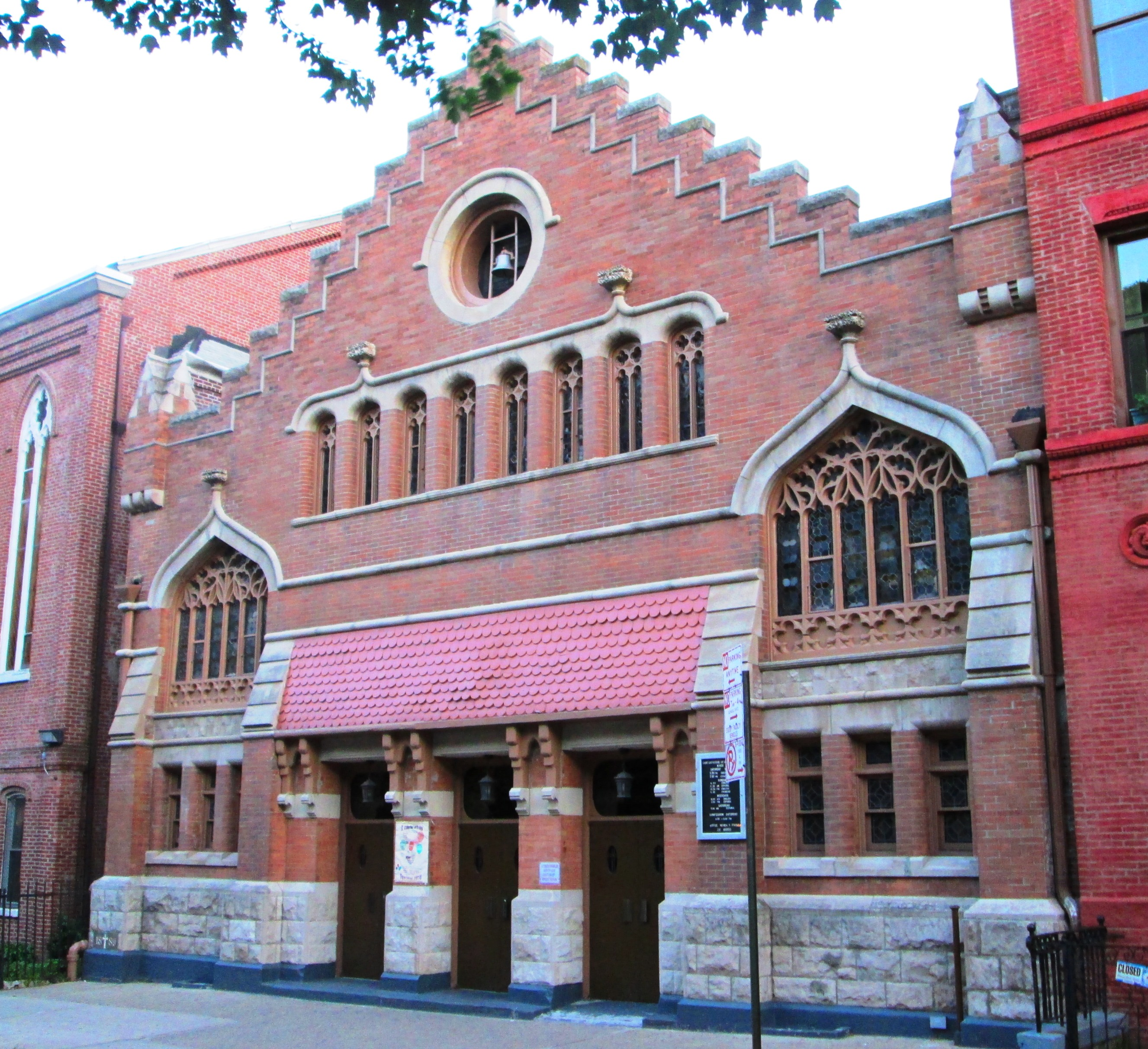 The Church of St. Catherine of Genoa located at 504 West 153rd Street between Broadway and Amsterdam in the Hamilton Heights neighborhood of Manhattan, New York City, was built in 1890 and was designed by Thomas H. Poole in an Eclectic version of the Gothic revival style. A rectory was added c.1926, and a schoolhouse in 1937. The parish school closed in 2006, and the building is now P.S. 226.